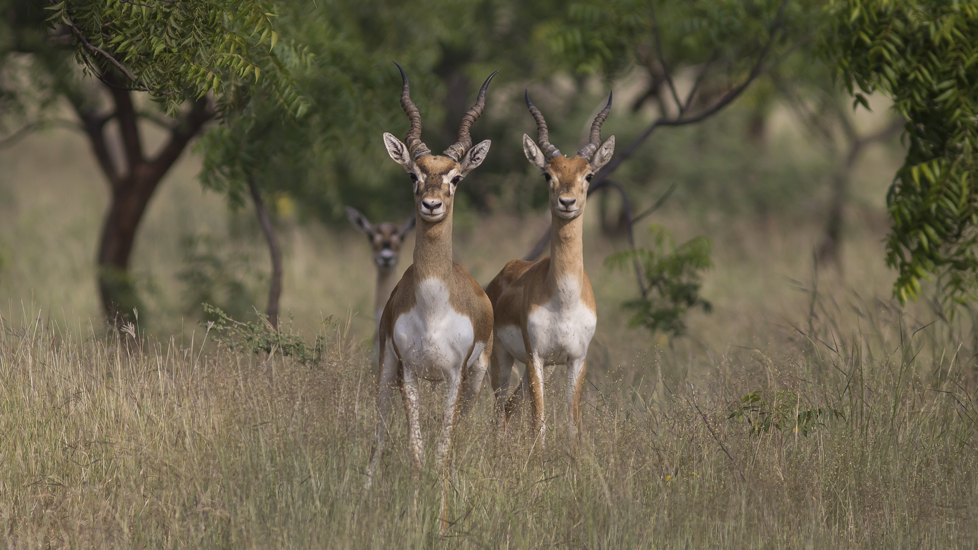 Blackbucks in their natuaral habitat at Rehekuri Wildlife Sanctuary situated in Ahmednagar district.